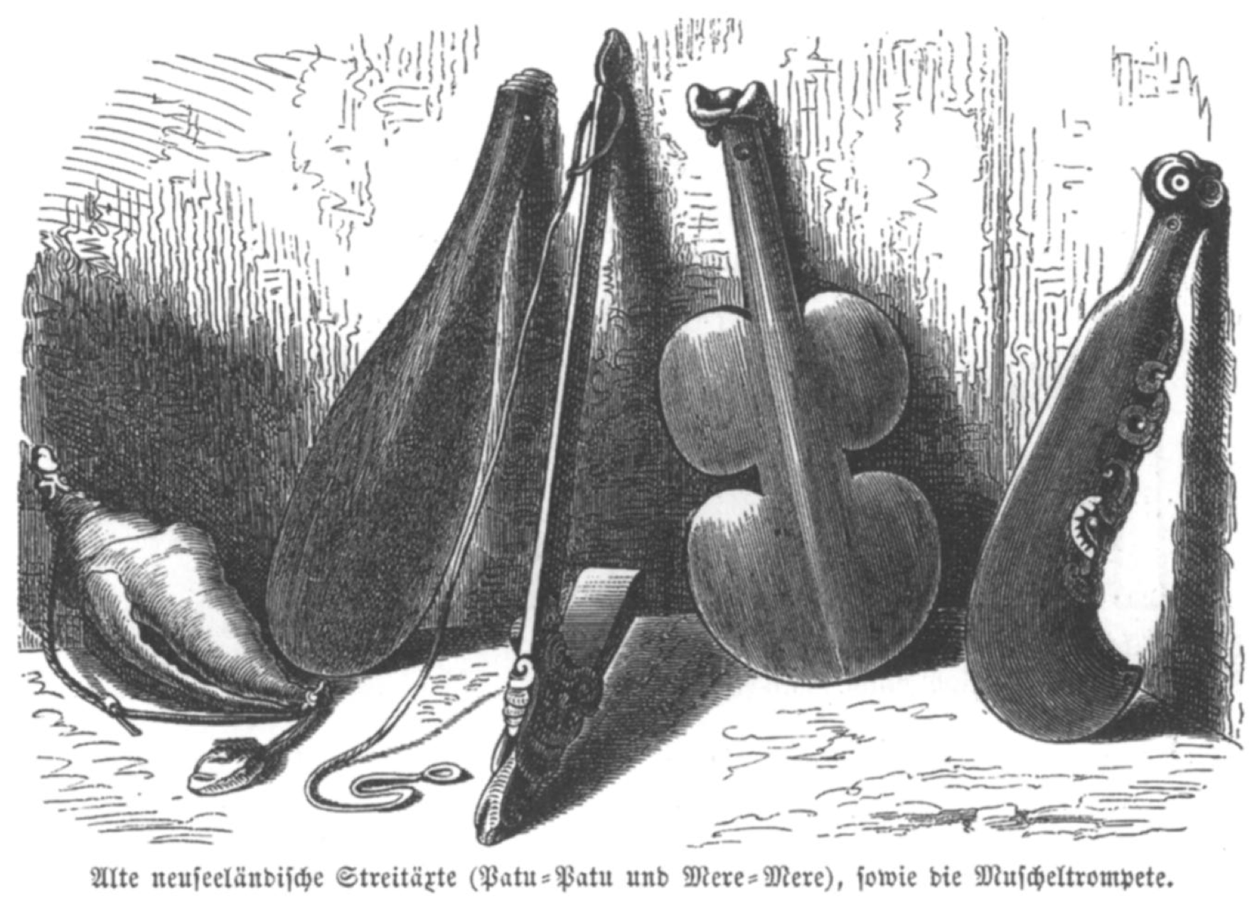 This 19th century illustration depicts traditional Maori artifacts, primarily war clubs. From left to right: pūtātara (conch shell horn), patu, tewhatewha, kotiate, wahaika.